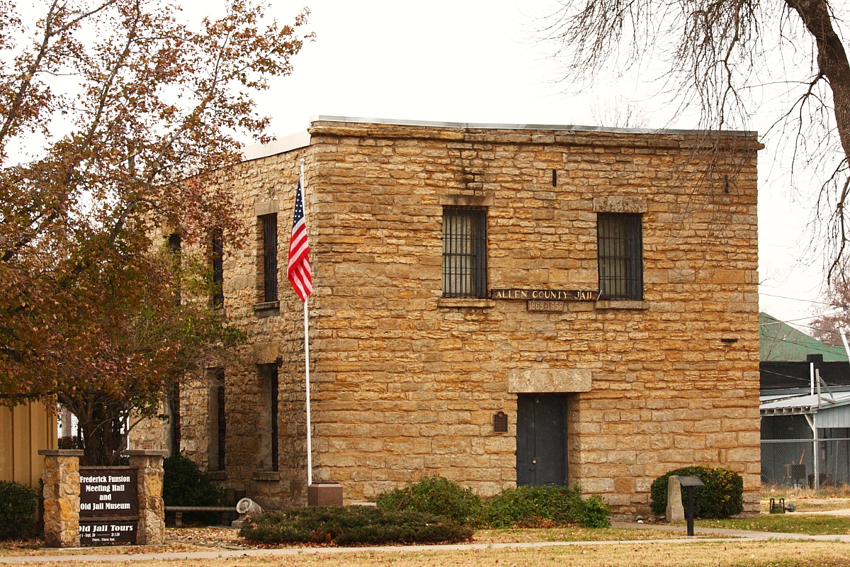 Front of the former Allen County Jail, located at 204 N. Jefferson Street in Iola, Kansas, United States. Built in 1869, the jail is listed on the National Register of Historic Places.